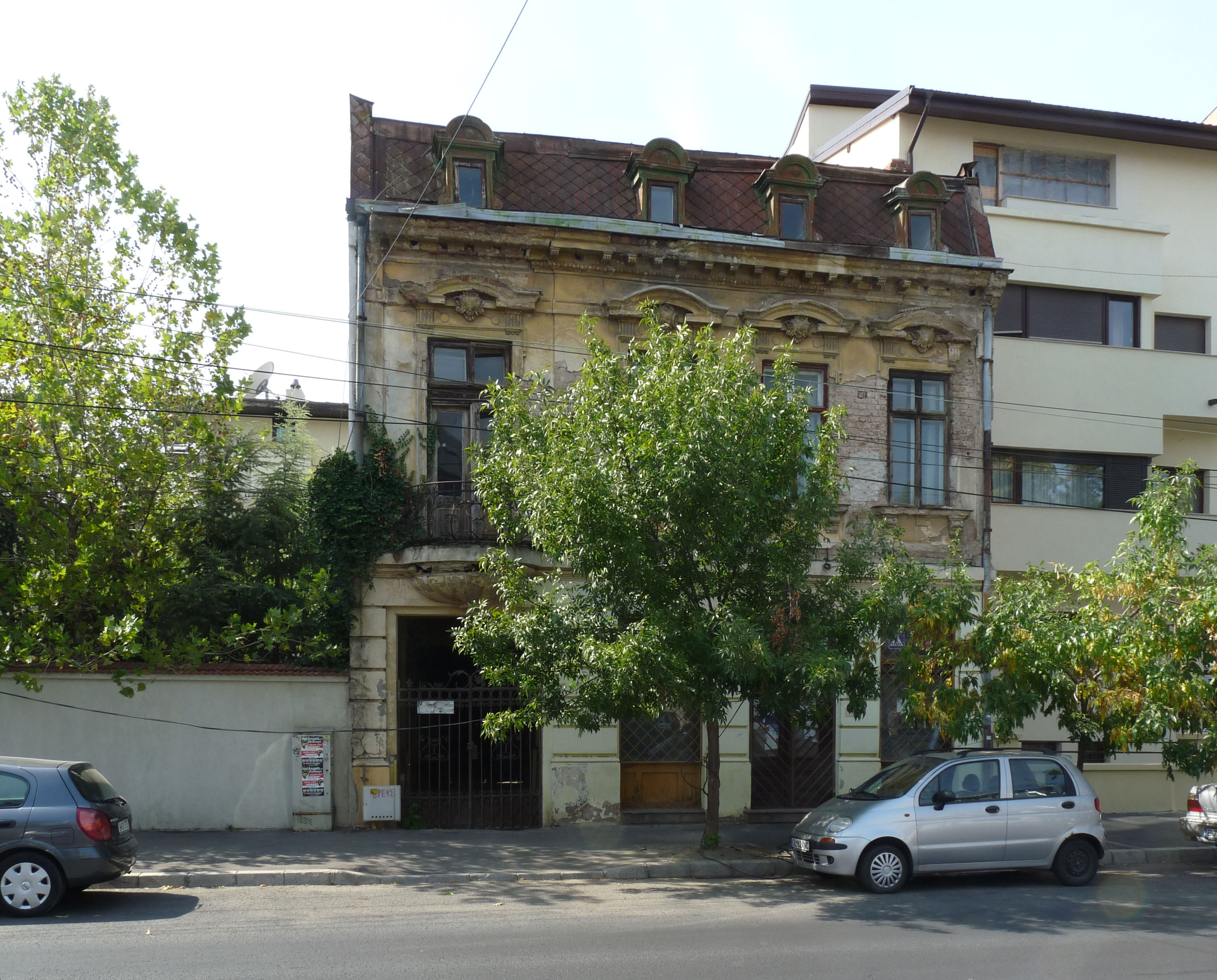 Historical building in Bucharest, Romania, on Polonă street 61